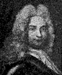 Niklas Peter von Gedda (1676-1758) swedish diplomat